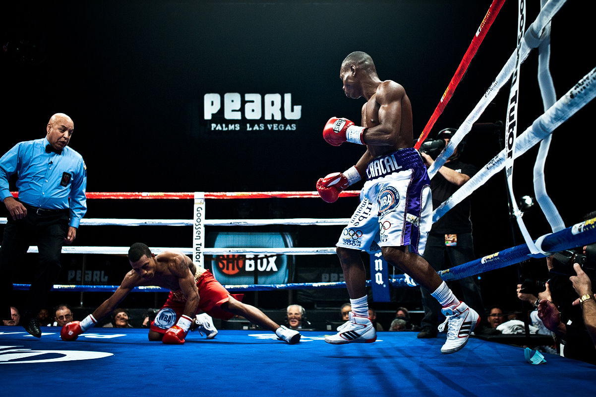 Guillermo Rigondeaux (on the right) knocked down Rico Ramos in the first round on January 20, 2012 at the Palms Casino in Las Vegas. When Rigondeaux floored Ramos in the sixth round for the second time, Ramos could not stand up.